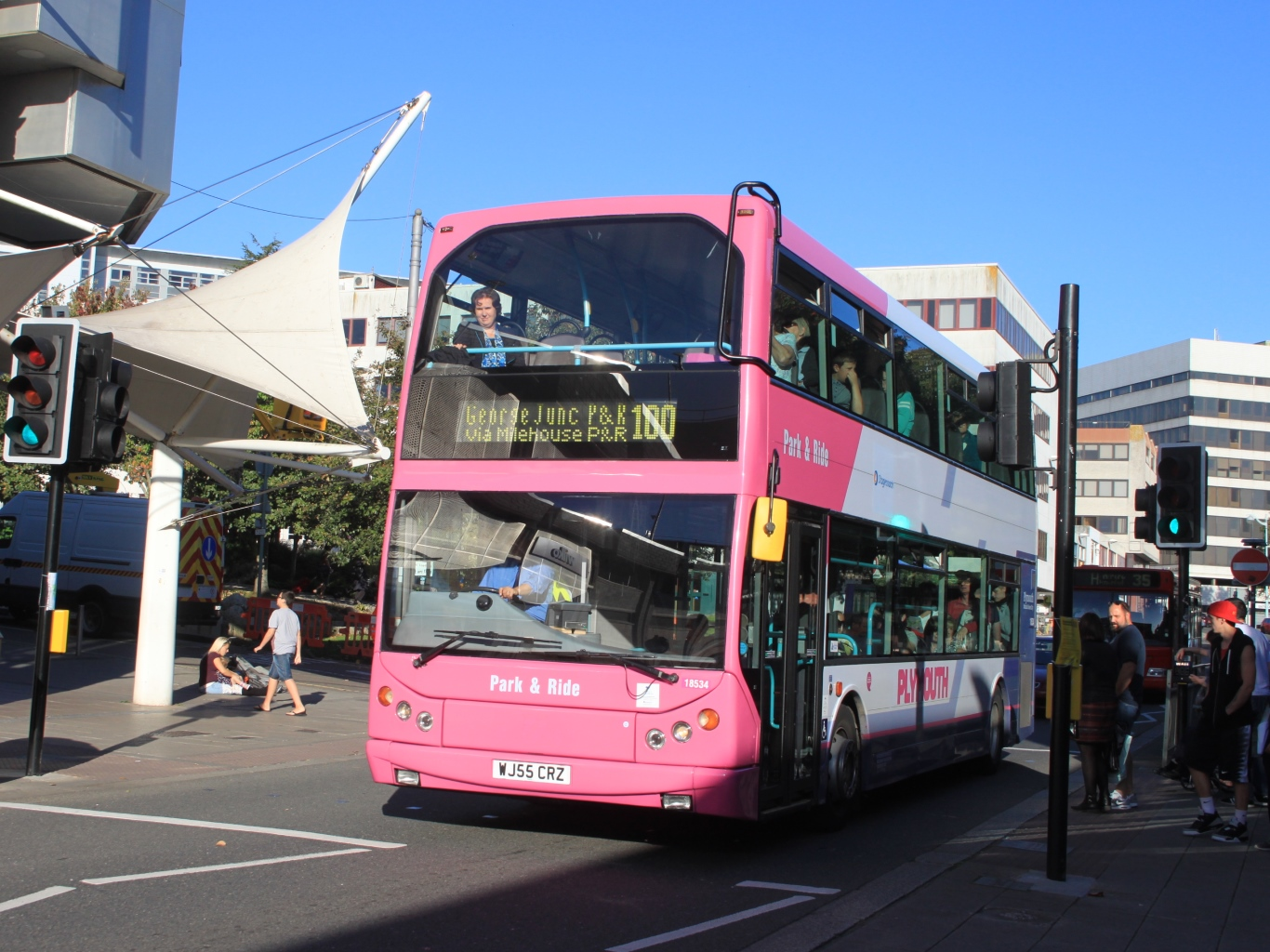 Stagecoach South West took over the First Group bus services in the Plymouth area. They mostly brought in their own vehicles but a small number of Lolynes were loaned from First for the park and ride service until new Enviro400 MMCs arrived. WJ55CRZ is number 32762 in the First fleet but is running as Stagecoach's 18534.